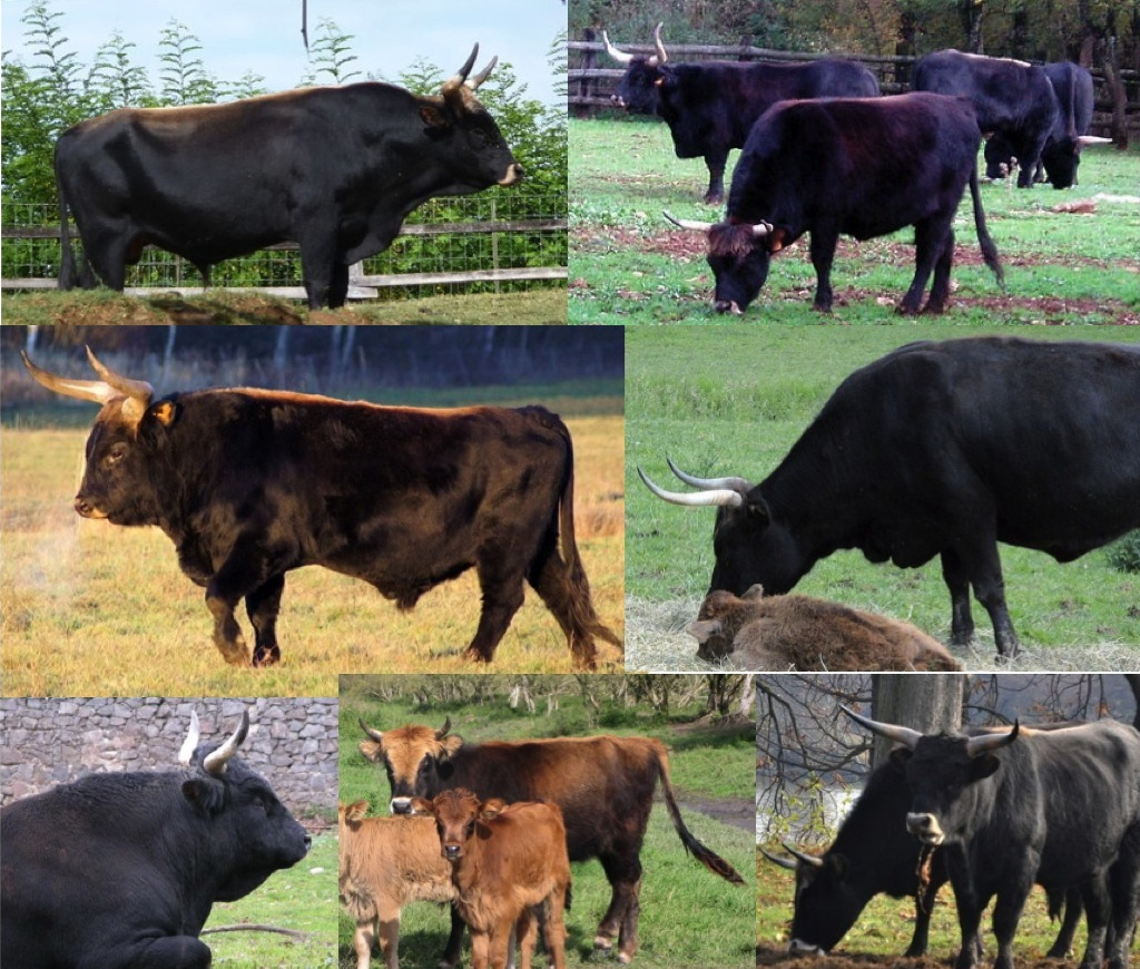 This is a compilation of various heck cattle photos in the wikimedia commons.